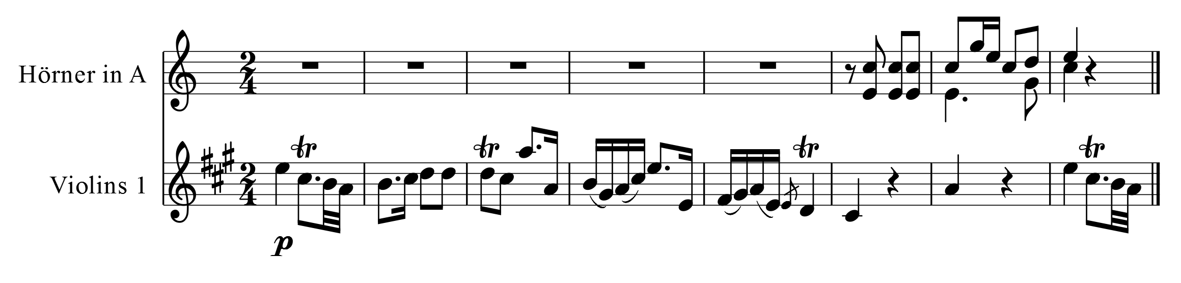 Joseph Haydn, Symphony No. 5, first movement, bar 1-8